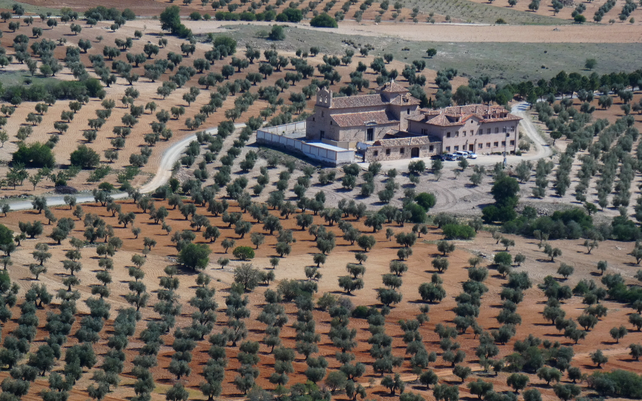 Ermita de la Virgen de la Oliva, Almonacid de Toledo.